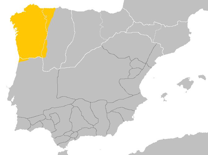 Spoken area of the Galician-Portuguese (also known as Old Portuguese or Medieval Galician) in the kingdoms of Galicia and León around the 10th century, before the separation of the Galician and Portuguese languages.